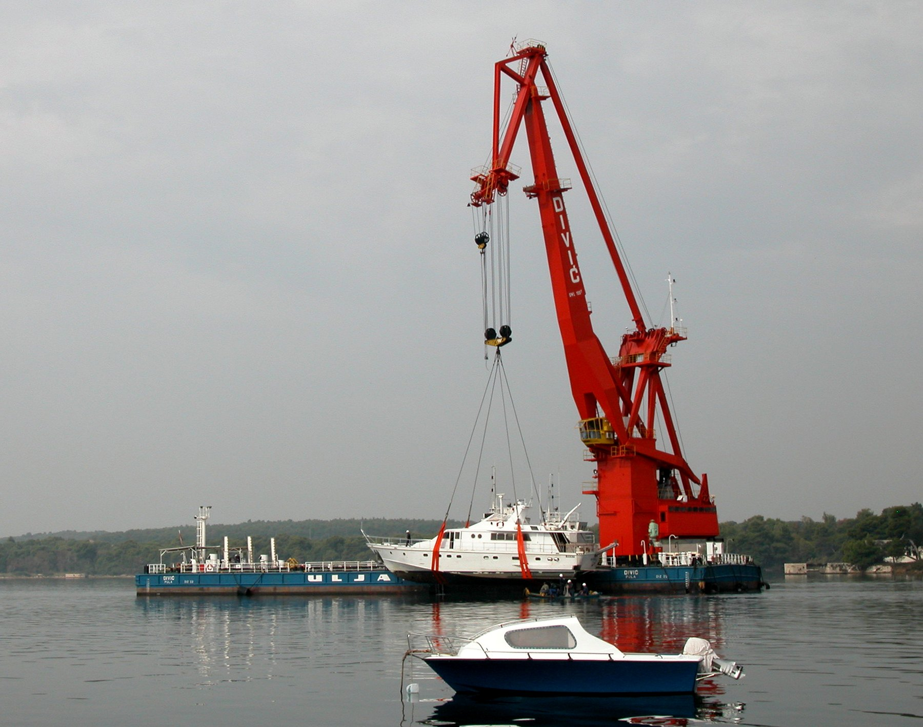 Divić floating crane in Pula, Croatia